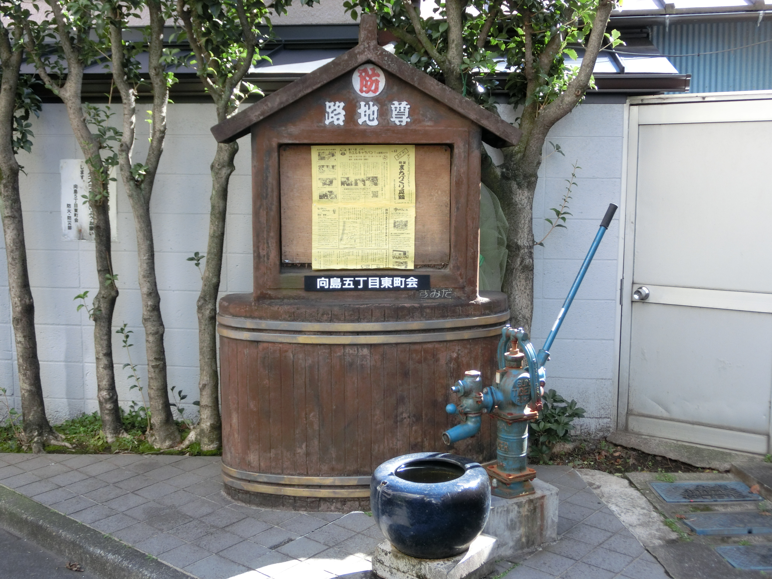 Sumida-ku Rojison No.2